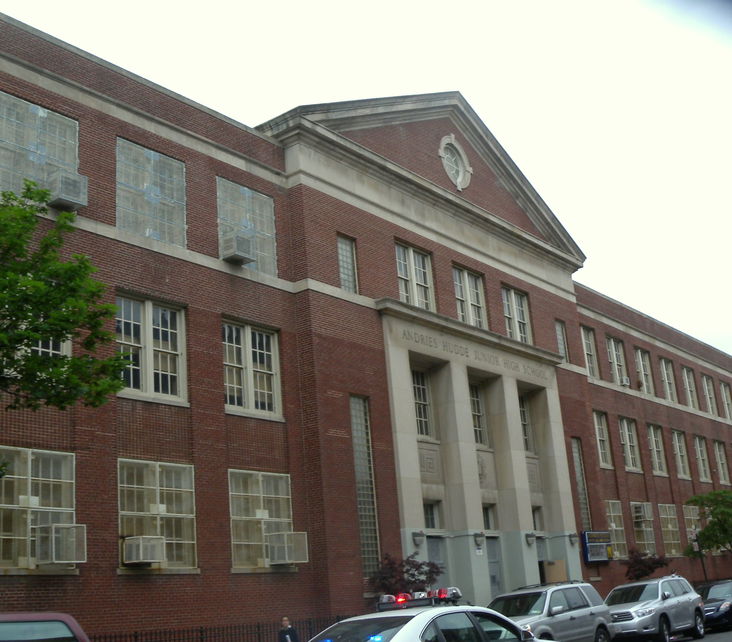 Looking northwest across Nostrand Avenue at Hudde Junior High School on a mostly sunny midday.